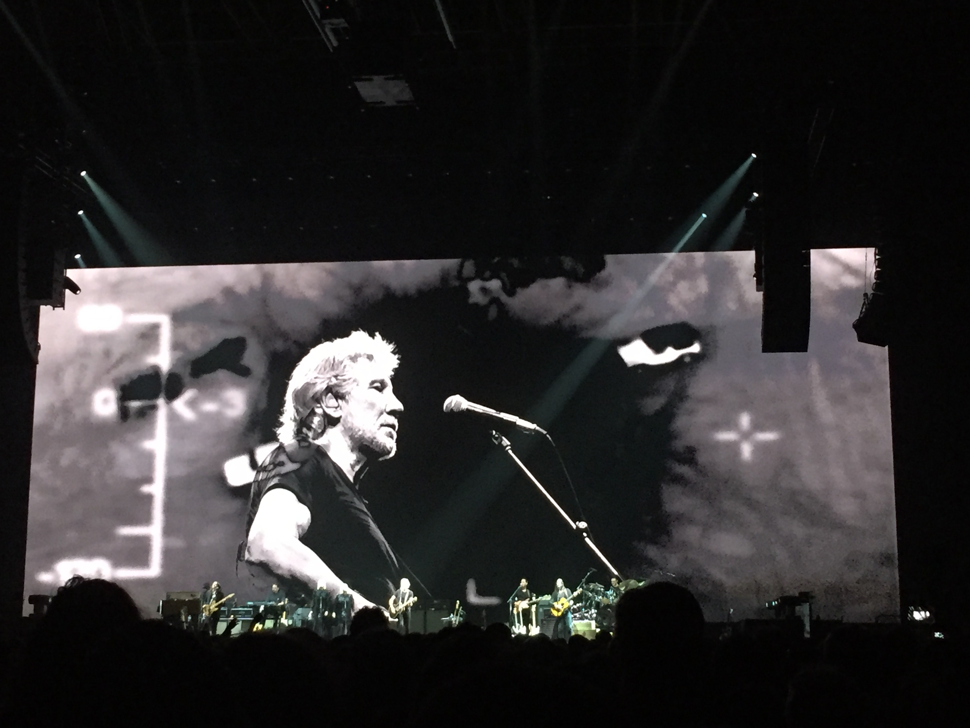 Concert of Roger Waters in Palau Sant Jordi, Barcelona; first show of the second leg in Us+Them tour. (13th of April 2018)